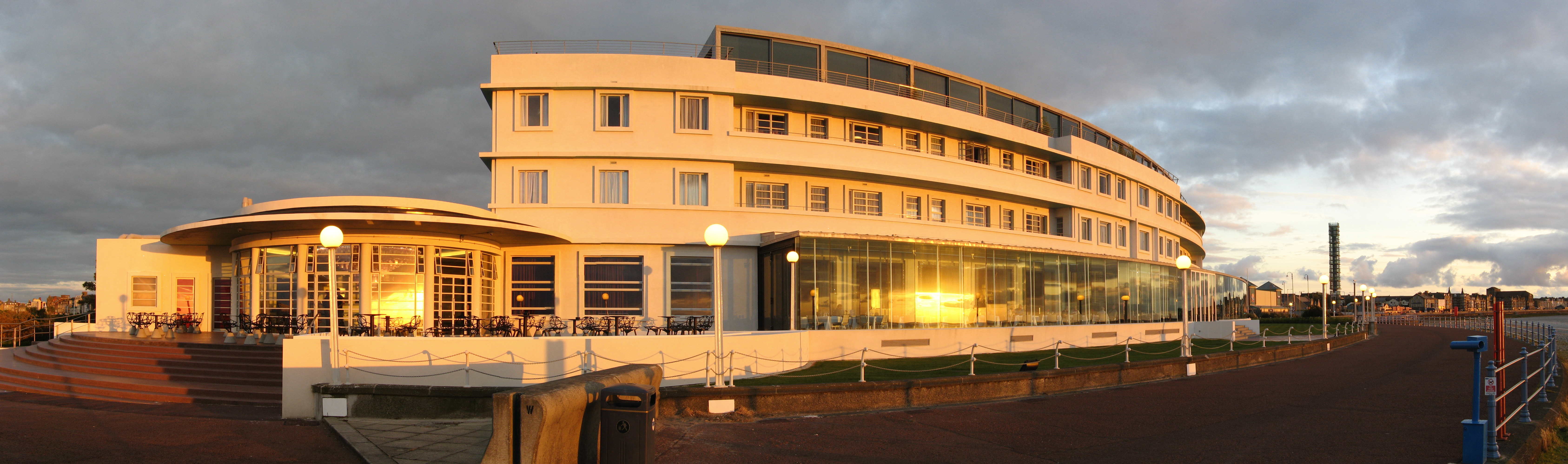 Midland Hotel, Morecambe, in evening sunlight.